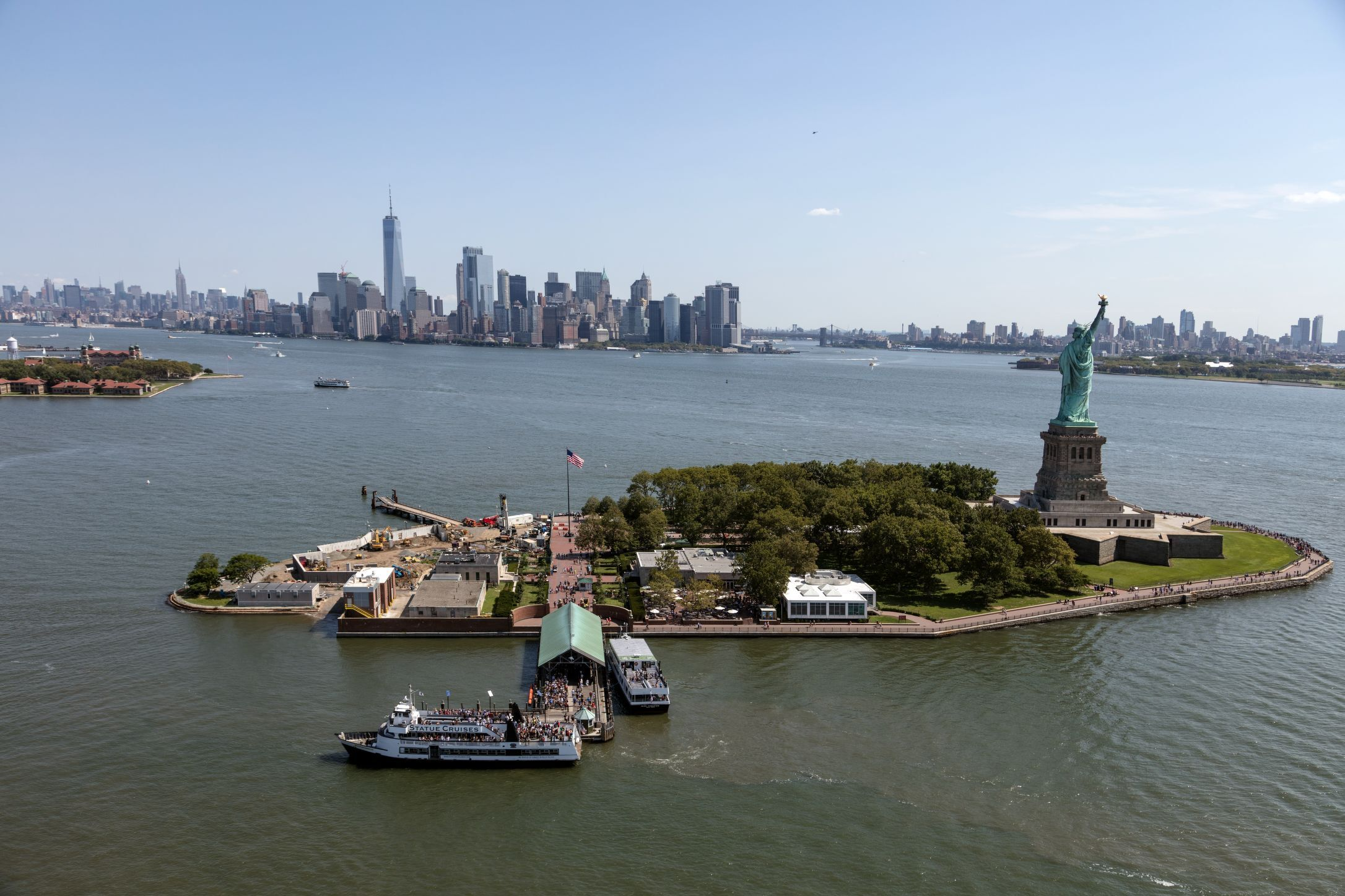 The Statue of Liberty in New York Harbor as photographed by Carol Highsmith, donated to the public domain via the Library of Congress